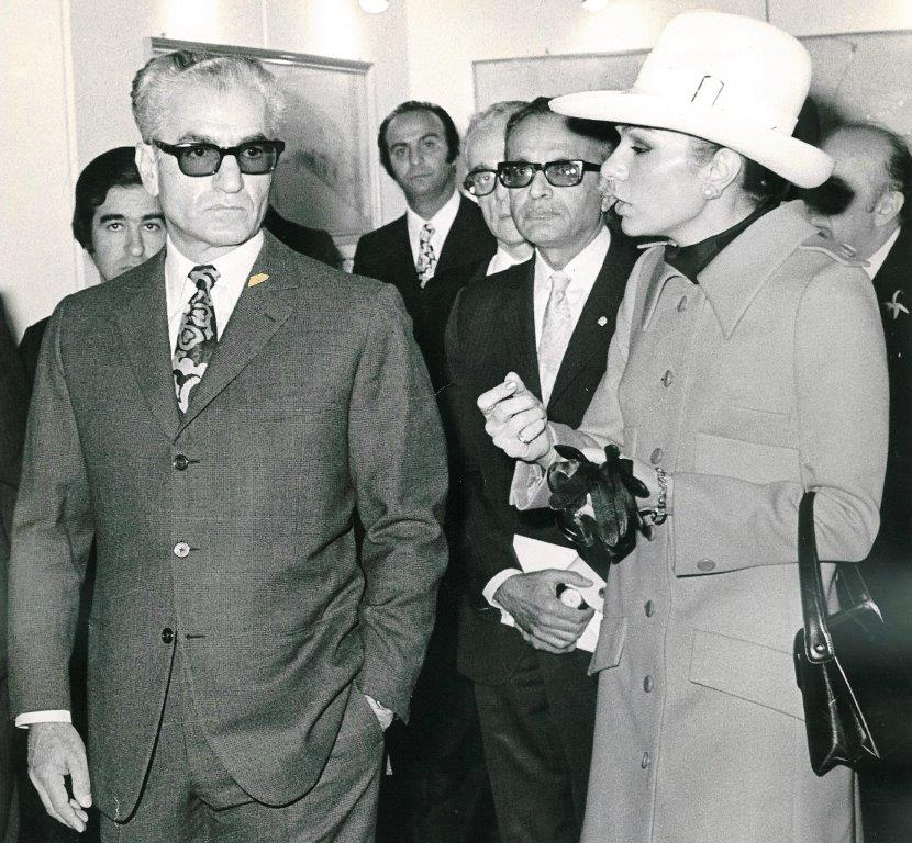 Shah and Farah at the High Urban Planning Council: also, Hoveyda (Prime Minister), Badi (Director of HUPC), Ziyai (Senator), (Staff Member), Dariush Borbor (Urban Planning Consultant), Tehran, Iran, 1966